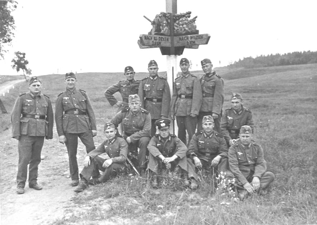 Group of soldiers on the military training area in East Prussia Stablack